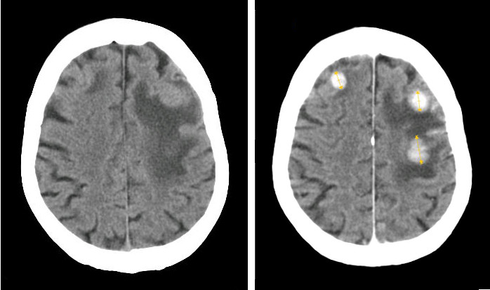 CT scan of three brain metastasis (with large peripheral oedema) from breast cancer. Before (left image) and after (right image) injection of iodinated contrast. Patient of 75 years old.